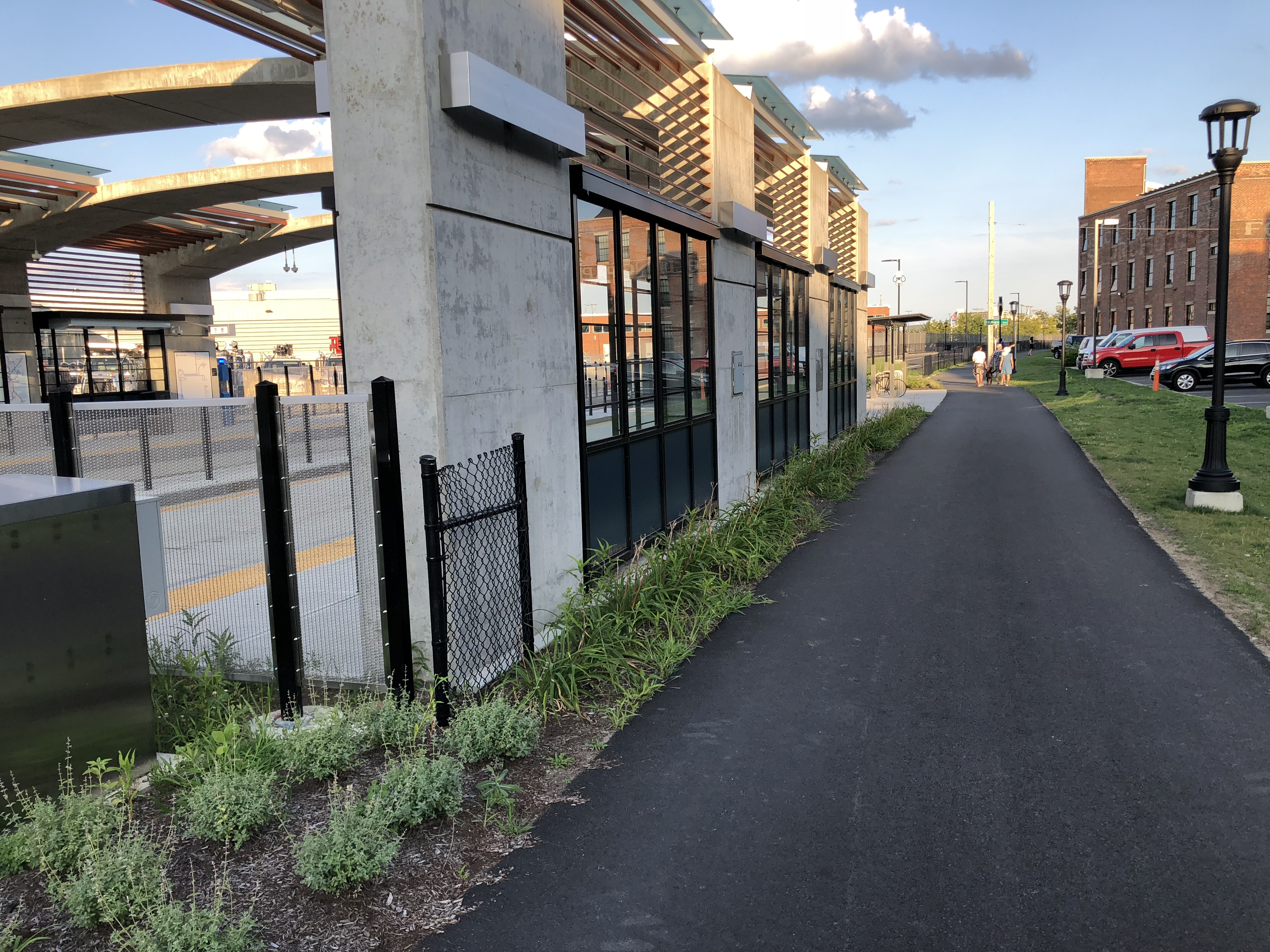 South side of Box District station with Chelsea Greenway. Note anti-shortcut fencing on left.